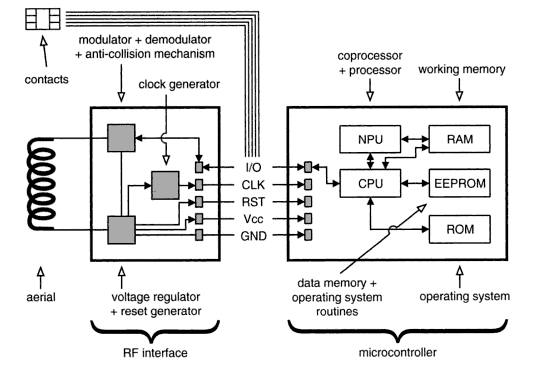 Schematics of generic dual-interface smartcard.